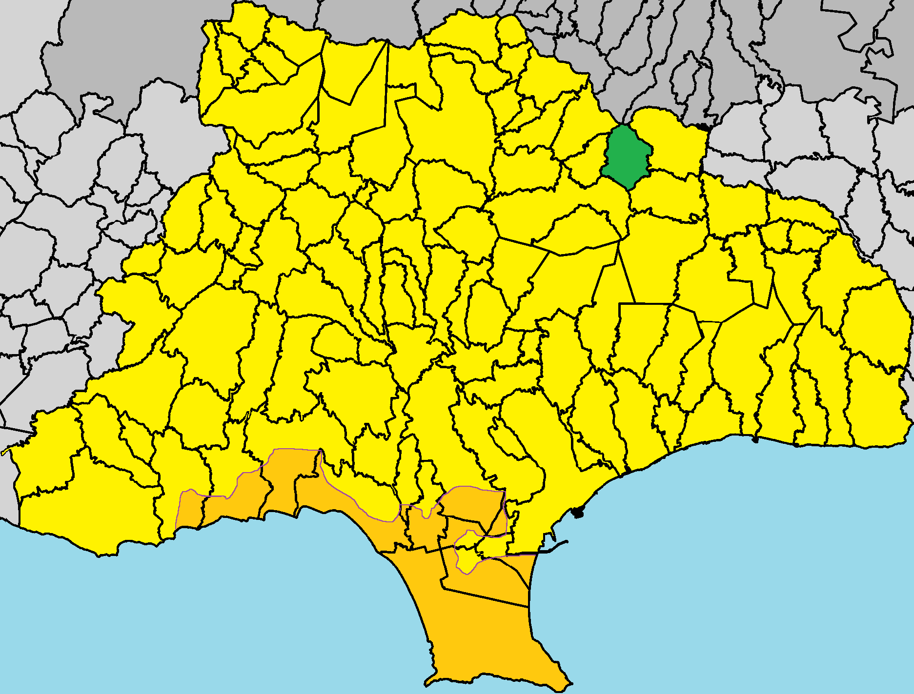 Agios Konstantinos, Cyprus in Limassol District.